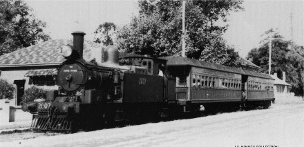 Kurrajong bound passenger train running along Marsh Street Richmond